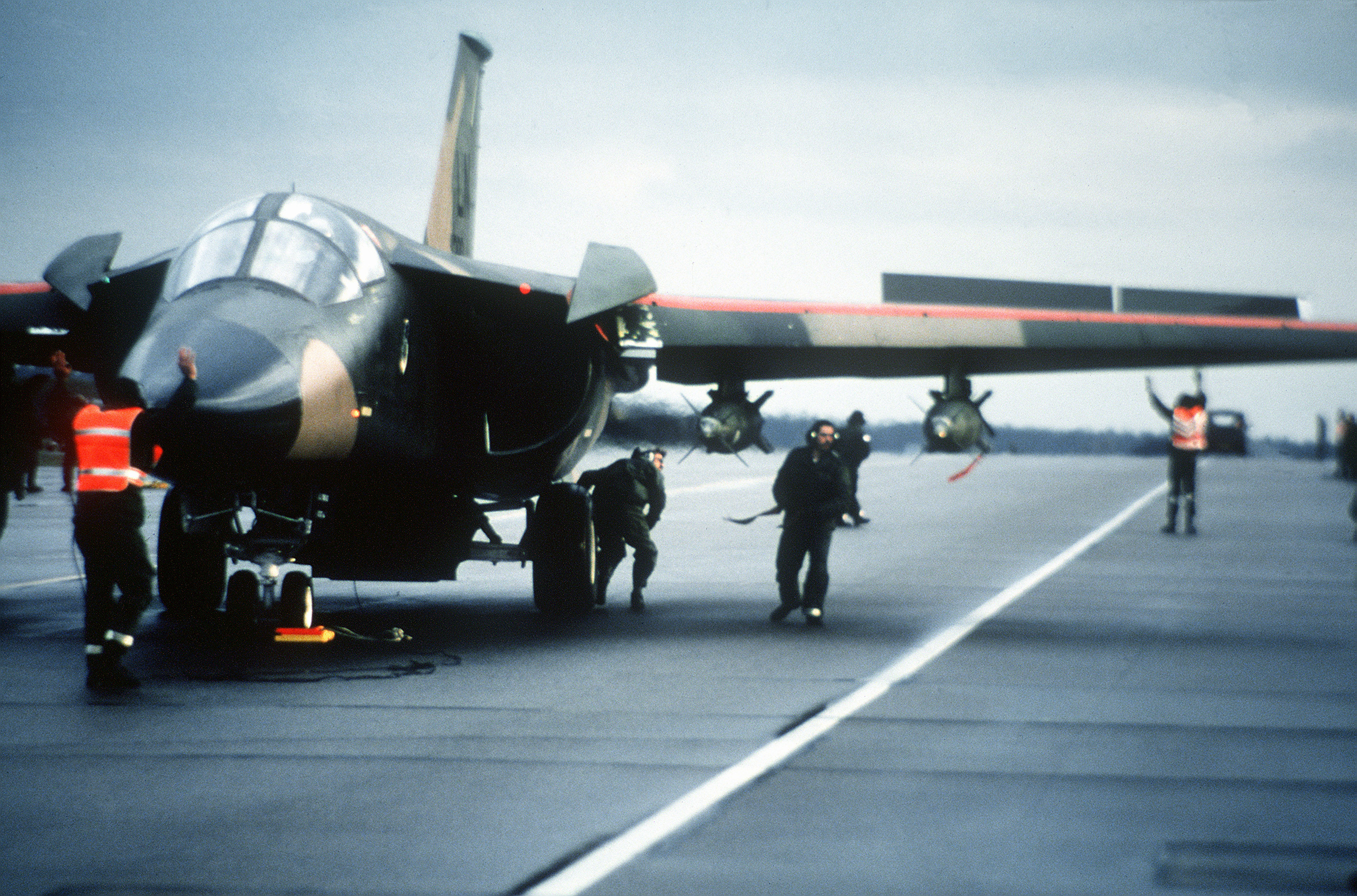 A ground crew prepares a 48th Tactical Fighter Wing F-111F aircraft for a retaliatory air strike on Libya. An arming supervisor gives hand signals to the pilot of the aircraft as the crewman under the wing pulls arming pins out of the GBU-10 modular glide bombs. The crewman by the landing gear is checking for foreign objects on the runway that might be sucked into an engine before takeoff. Location: ROYAL AIR FORCE, LAKENHEATH, EAST ANGLIA ENGLAND / GREAT BRITAIN (ENG)